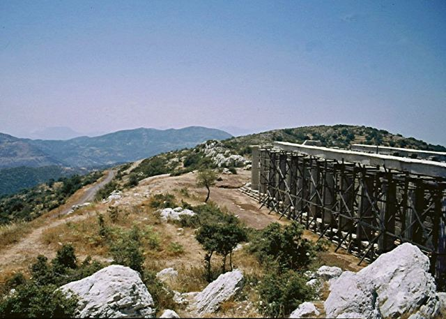 The Temple of Apollo Epicurius at Bassae, in 1985